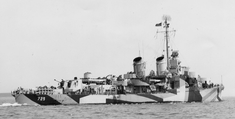 The U.S. Navy destroyer USS O'Brien (DD-725) off Boston, Massachusetts (USA), on 3 May 1944. She is painted in Camouflage Measure 32, Design 9D.